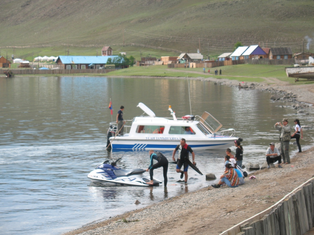 Hubsugul lake 10